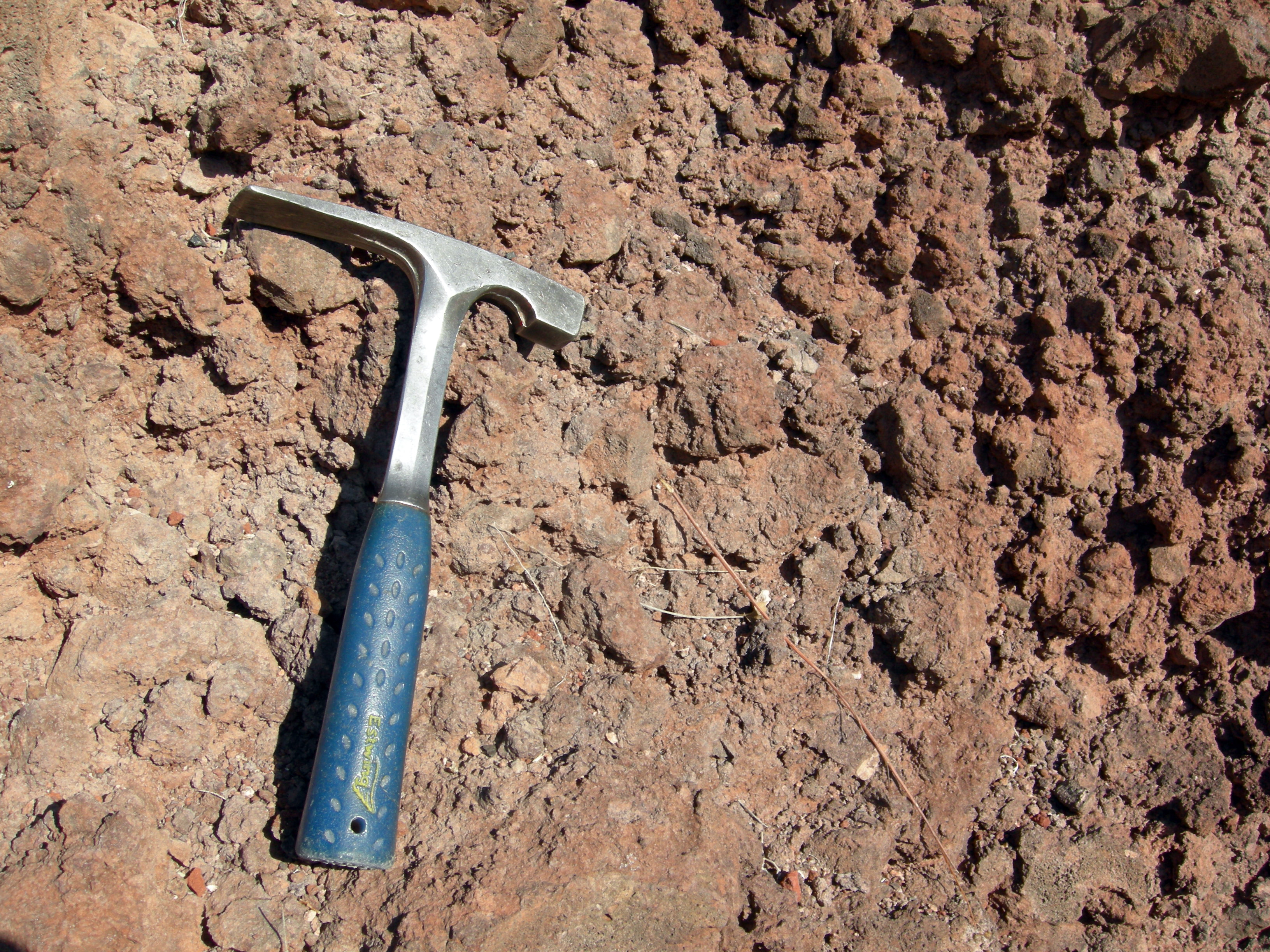 Cinders in Pleistocene cinder cone, San Bernardino Valley, southeastern Arizona.